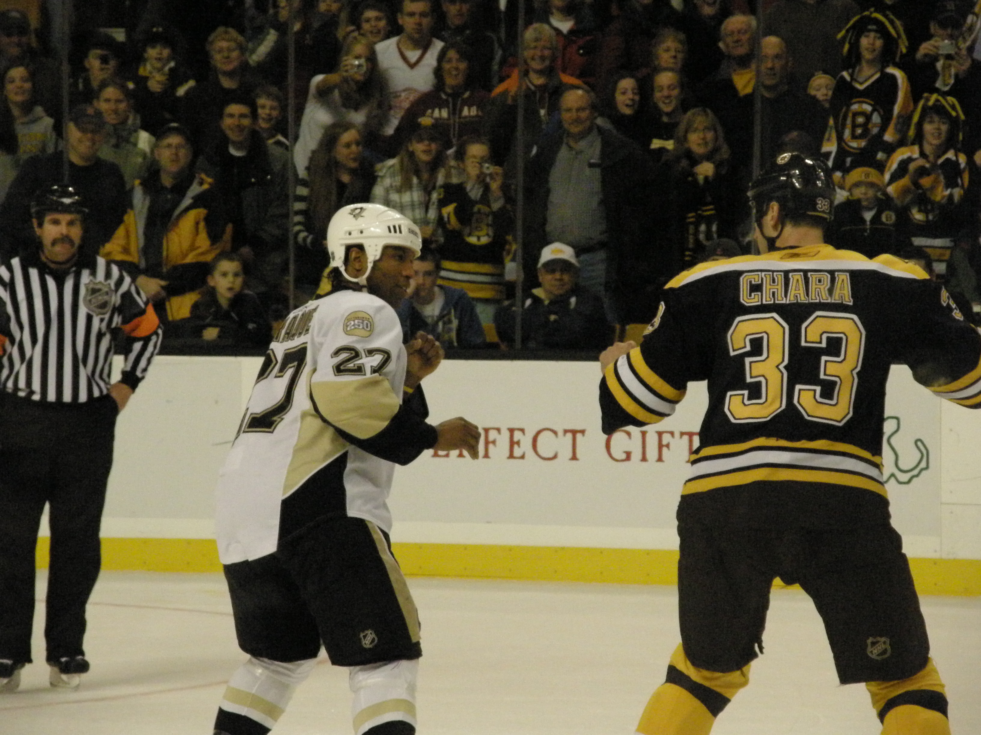 27 Georges Laraque and #33 Zdeno Chara throw off the gloves.